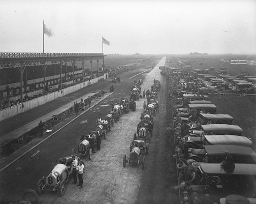 Start of the 1910 Vanderbilt Cup. #8: Franz Heim (Benz; car caught fire during lap #9); #9: Walter Jones (Amplex; finished 14th); #10: John Aitken (National; finished 3rd); #11: Leland Mitchell (Simplex; finished 7th)